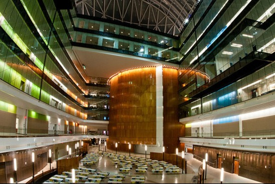 Atrium of the New National Geospatial-Intelligence Agency